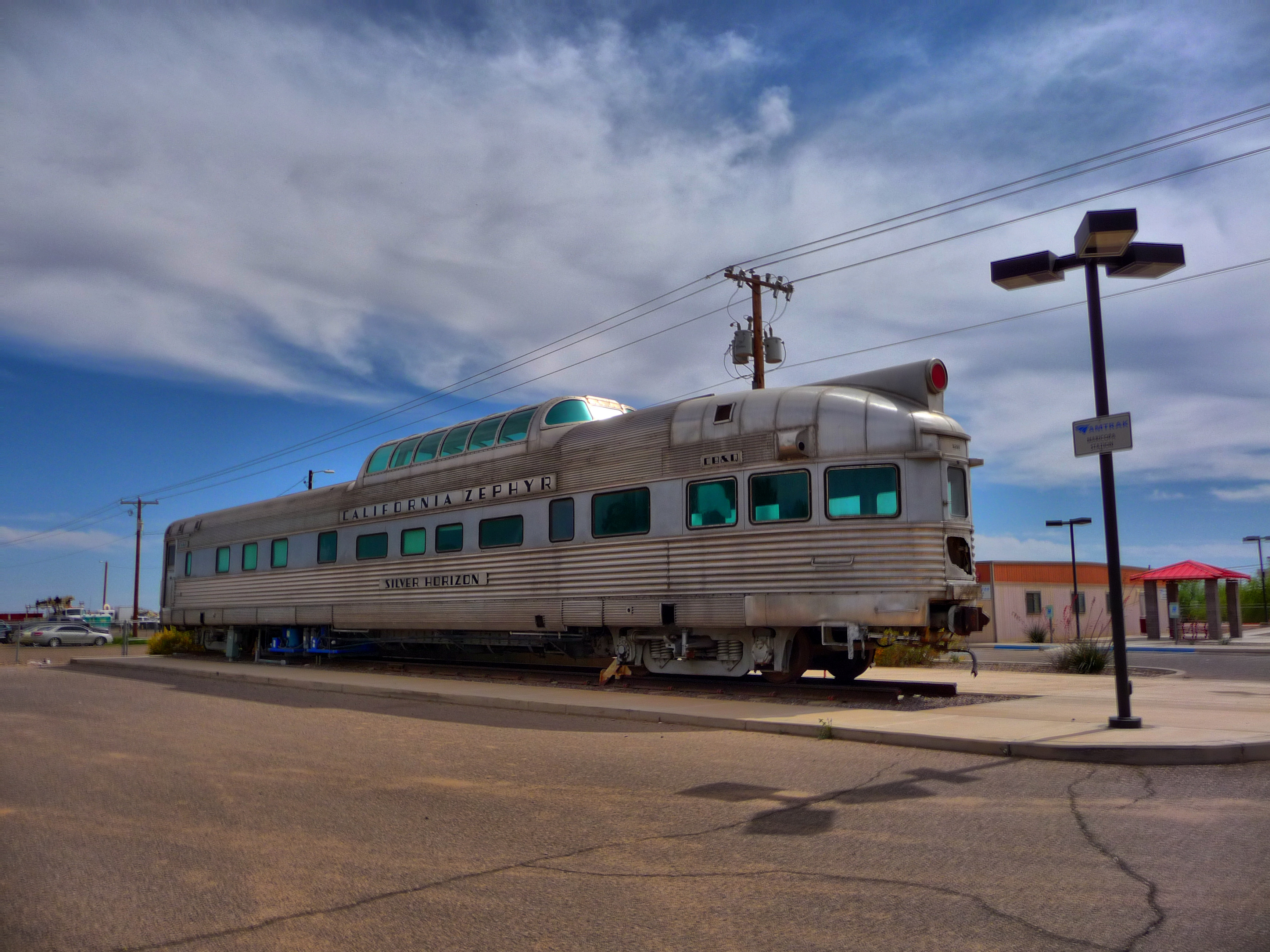 Amtrak Station in Maricopa, AZ featuring an old car from the California Zeypher train - HDR. This was used until 2005. The Budd Company built #375 "Silver Horizon" in 1948-1949 for the CB&Q as part of the original California Zephyr. The Vista-Dome buffet-lounge-observation included a drawing room and three double bedrooms.